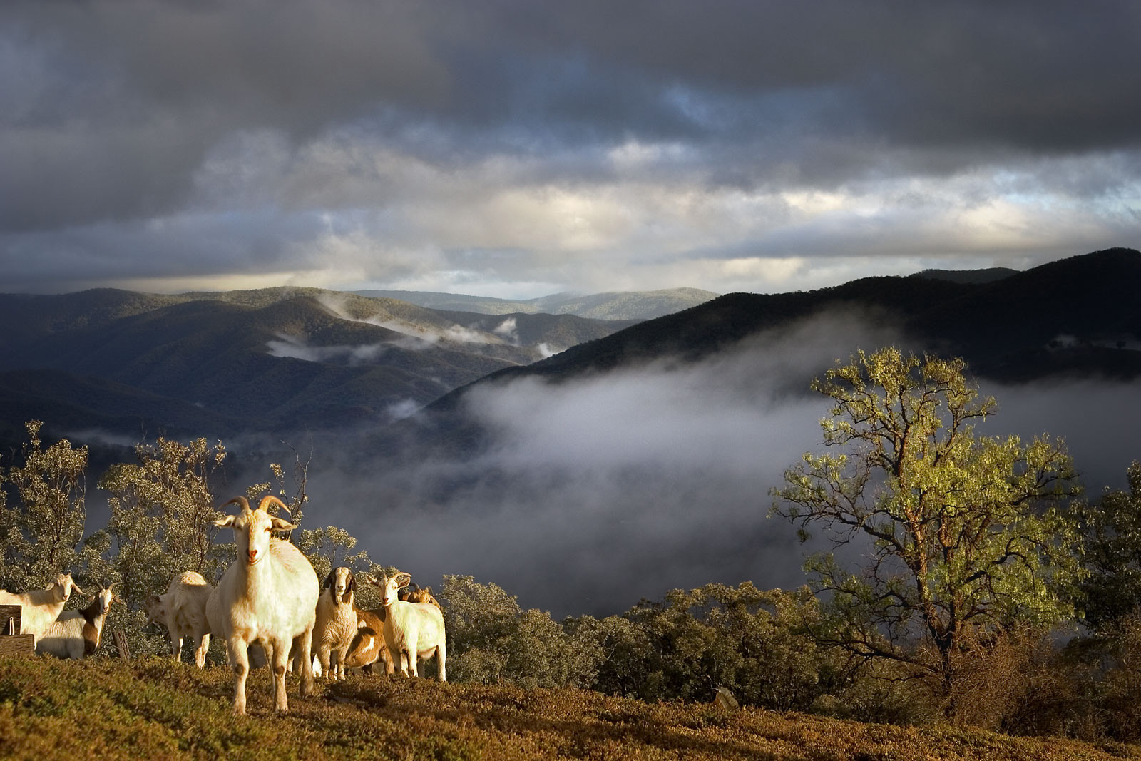 Domestic goats high up in the mountains Taken by Fir0002 Edited by Diliff